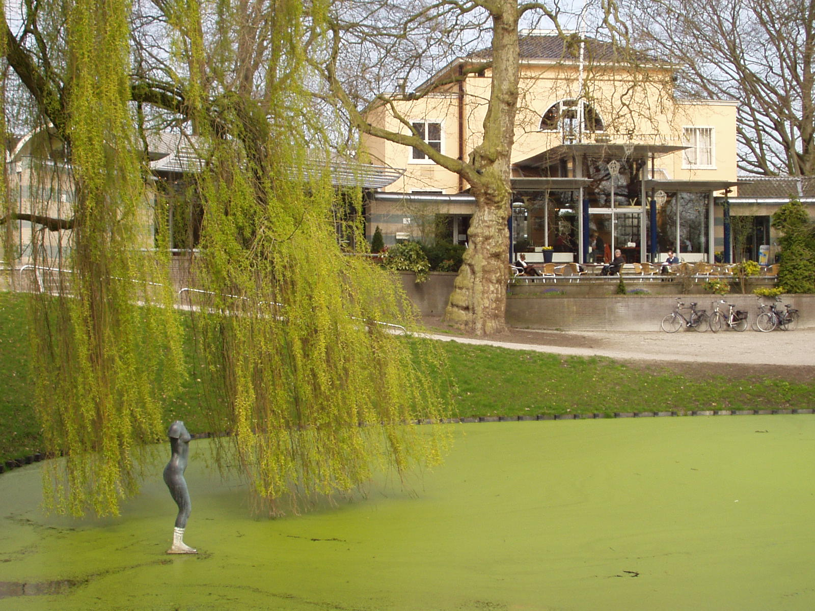 Statue Zig Zag by Eja Siepman van den Berg in 1996. Placed at the Prinsentuin park in Leeuwarden. The statue symbolises an woman's torso freeing itself. Made for the International Womans day.